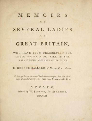 Cover from: George Ballard: Memoirs of several ladies of Great Britain, who have been celebrated for their writings or skill in the learned languages, arts and sciences. Printed by W. Jackson, for the author, Oxford 1752. For more information George Ballard